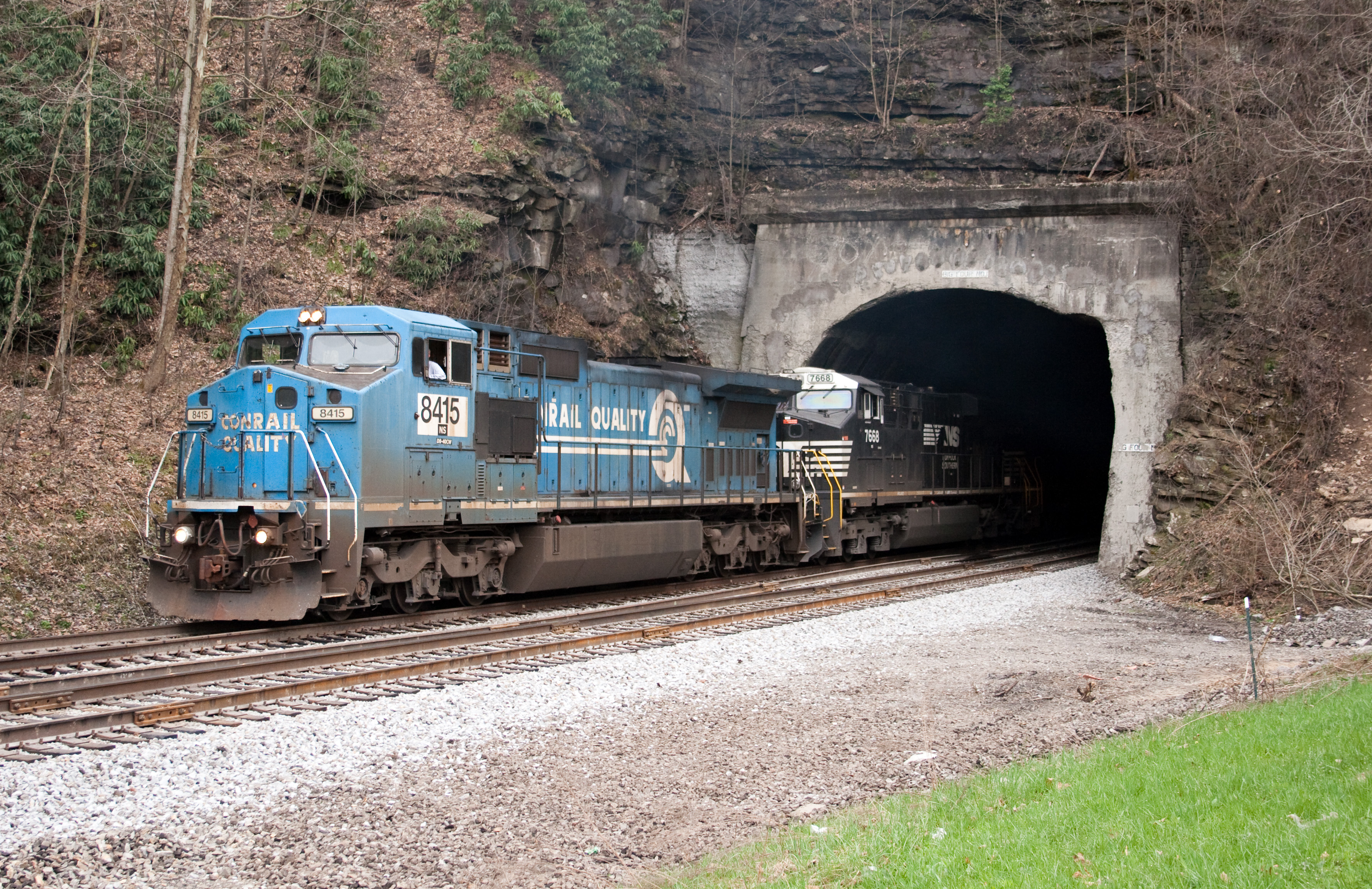 You see less and less Conrail blue as Norfolk Southern continues its repainting program. Here's NS 8415 (a D8-40CW) exiting Pocahontas Tunnel # 1 in Kimball, WV.